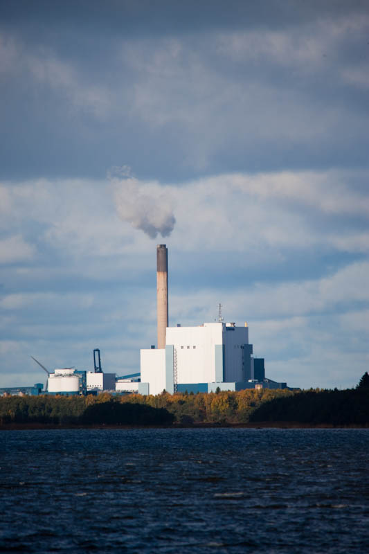 Meri-Pori coal power plant in Pori, Finland